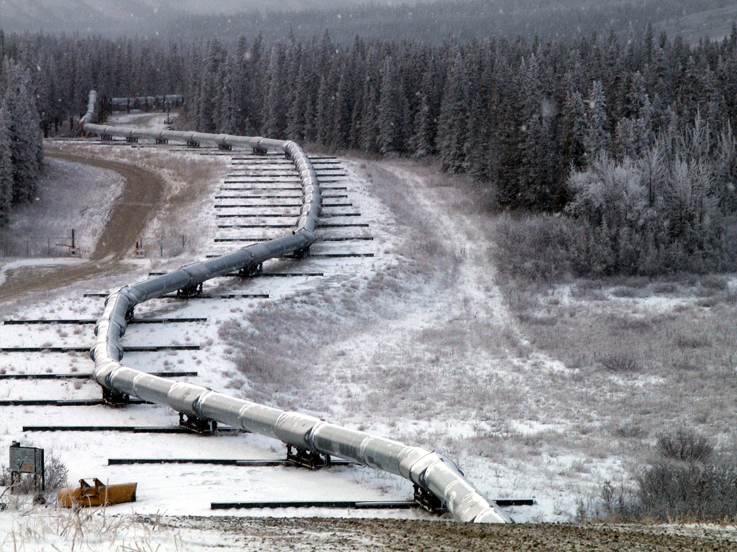 Trace of the Denali Fault after the 7.9 magnitude earthquake of 3 November 2002, Alaska, USA. View south along the Trans-Alaska Pipeline System in the zone where it was engineered to cross the fault (the pipeline rests on sliders rather than rigid pillar supports). The fault trace passes beneath the pipeline between the 2nd and 3rd slider supports at the far end of the zone. A large arc in the pipe can be seen in the pipe on the right, due to shortening of the zigzag-shaped pipeline trace within the fault zone. It was snowing when the photo was taken.